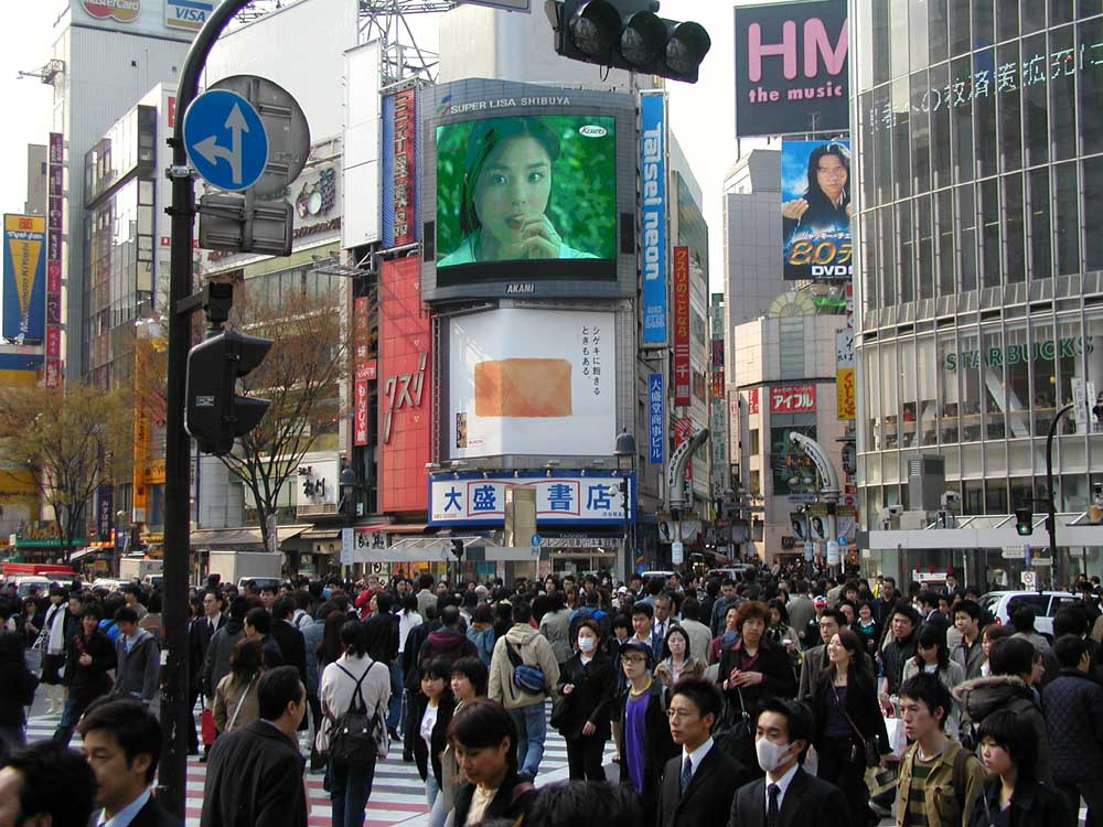 Crossing in Shibuya, Tokyo. March 2005.